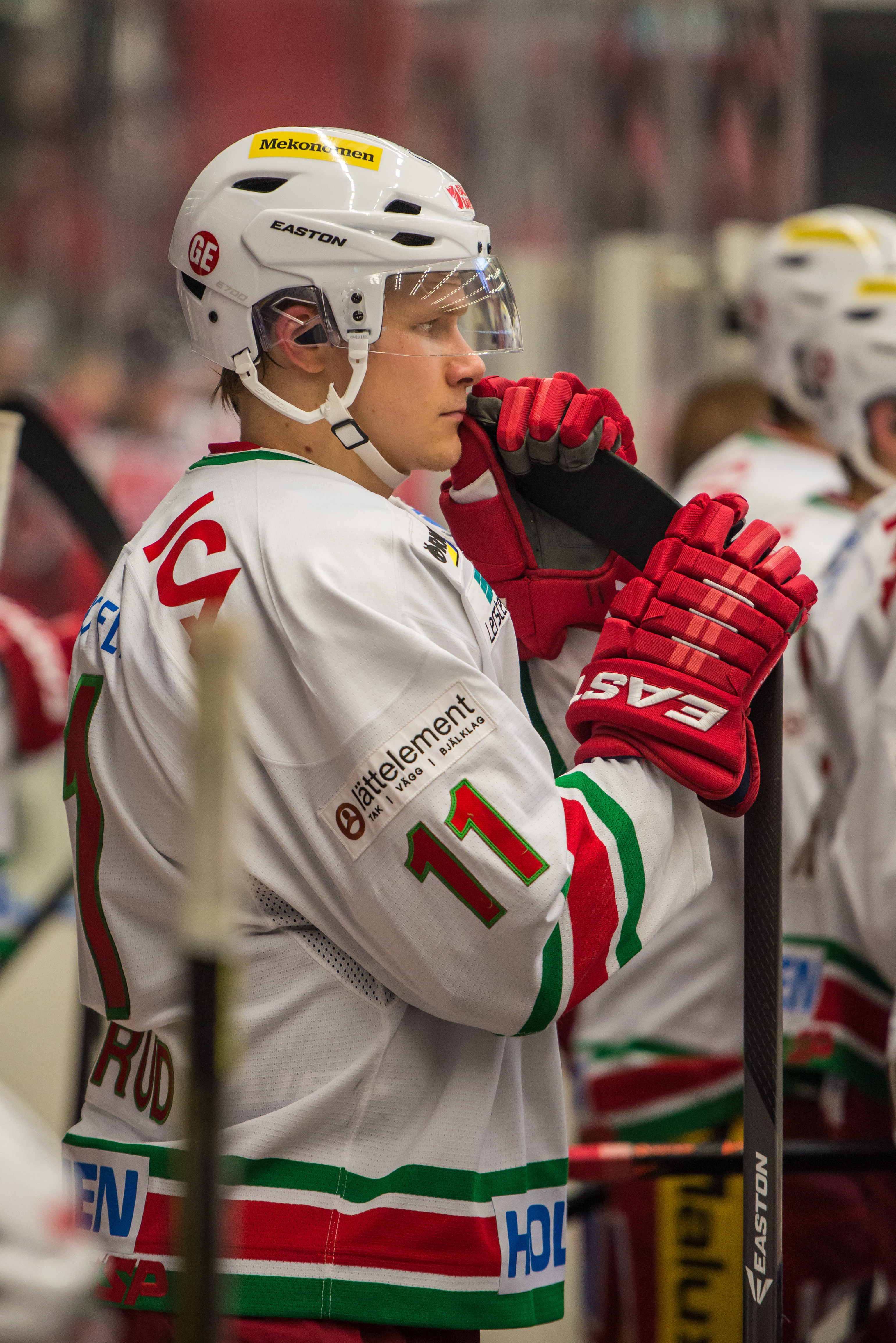 Simon Önerud playing for MODO Hockey in SHL (Swedish Hockey League – Sweden's highest league) vs Örebro HK in Behrn Arena 2013-10-05.